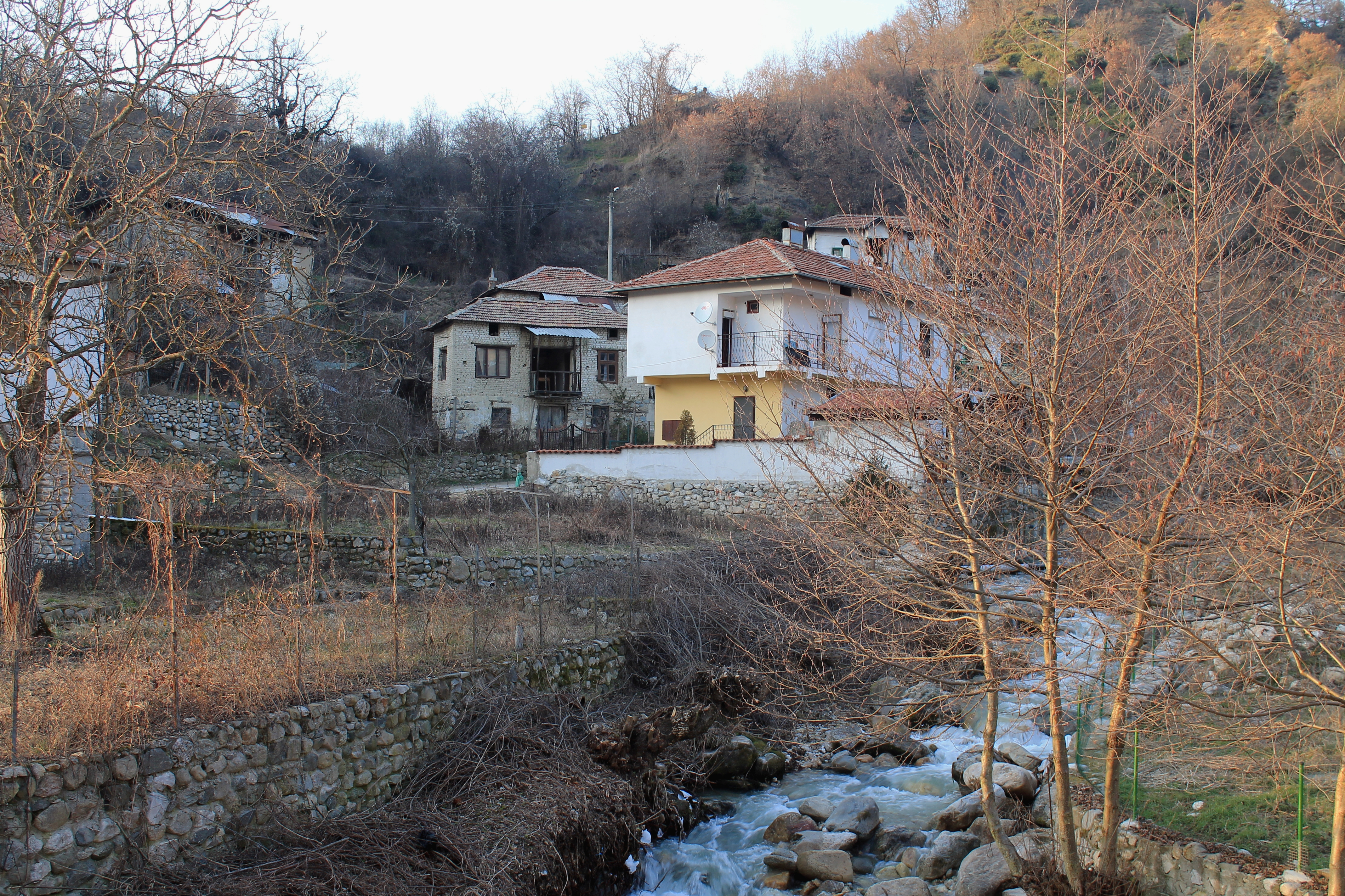 View from the village Karlanovo with Sugarevska River, Bulgaria